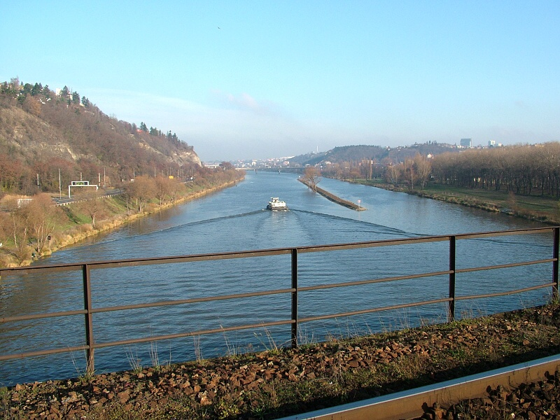 A view from the Braník Bridge (Branický most) in Prague, Czech Republic, along the Vltava River.